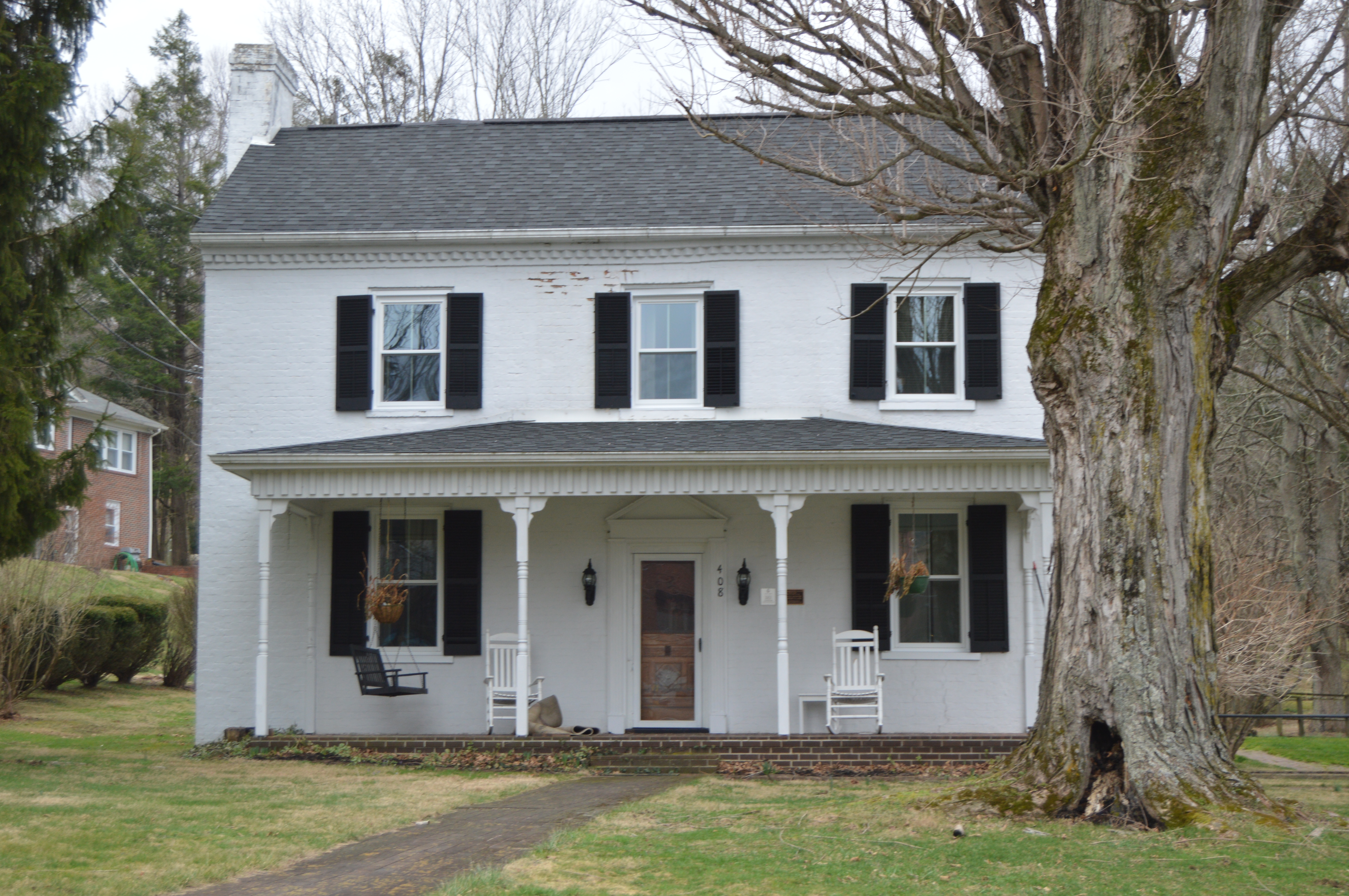 Front of the James Wynn House, located at the end of Elk Street in Tazewell, Virginia, United States. Built in 1828, it is listed on the National Register of Historic Places.